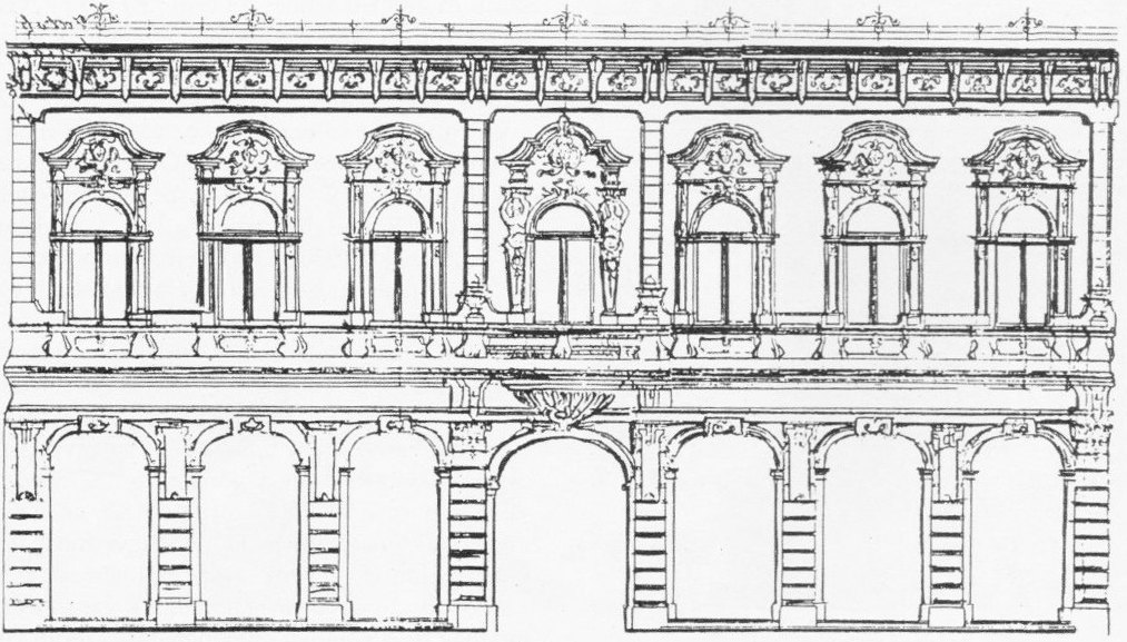 Grünfeld House, 4 Szemere street, Miskolc, End of the 19th century